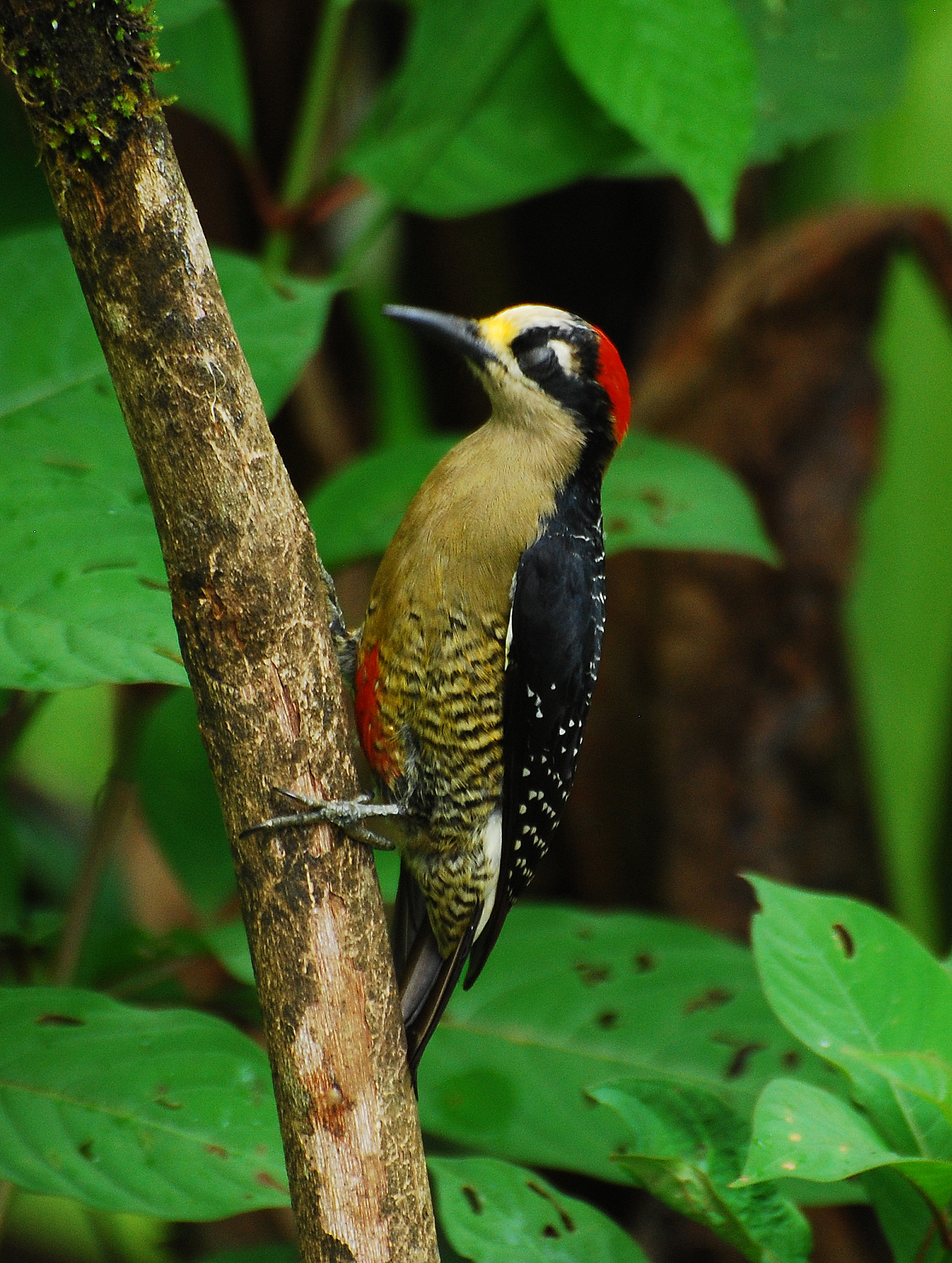 A male Black-cheeked Woodpecker at Selva Verde Lodge, Costa Rica, 080225. (Melanerpes pucherani).